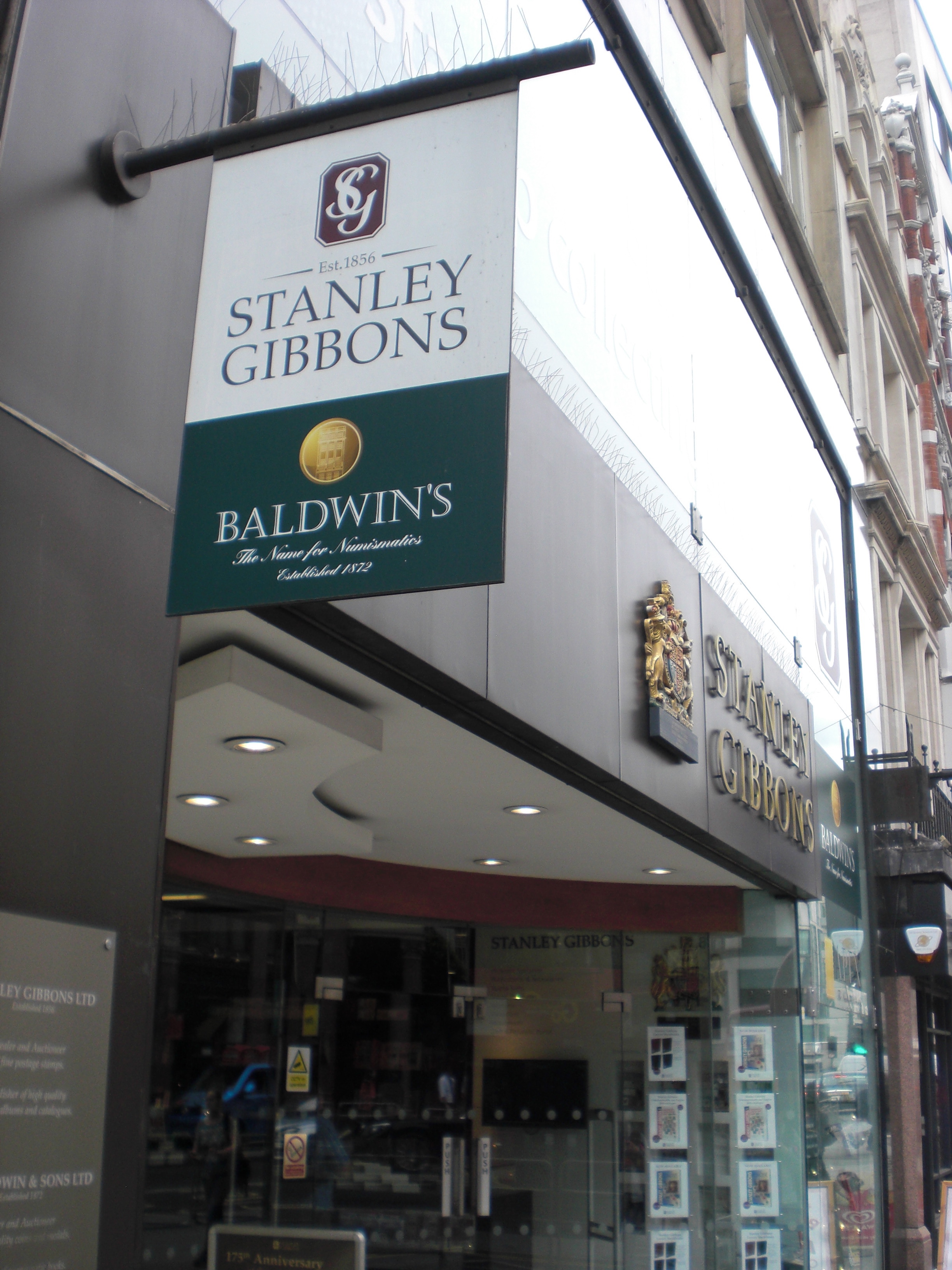 Stanley Gibbons’ 399 Strand shop in London